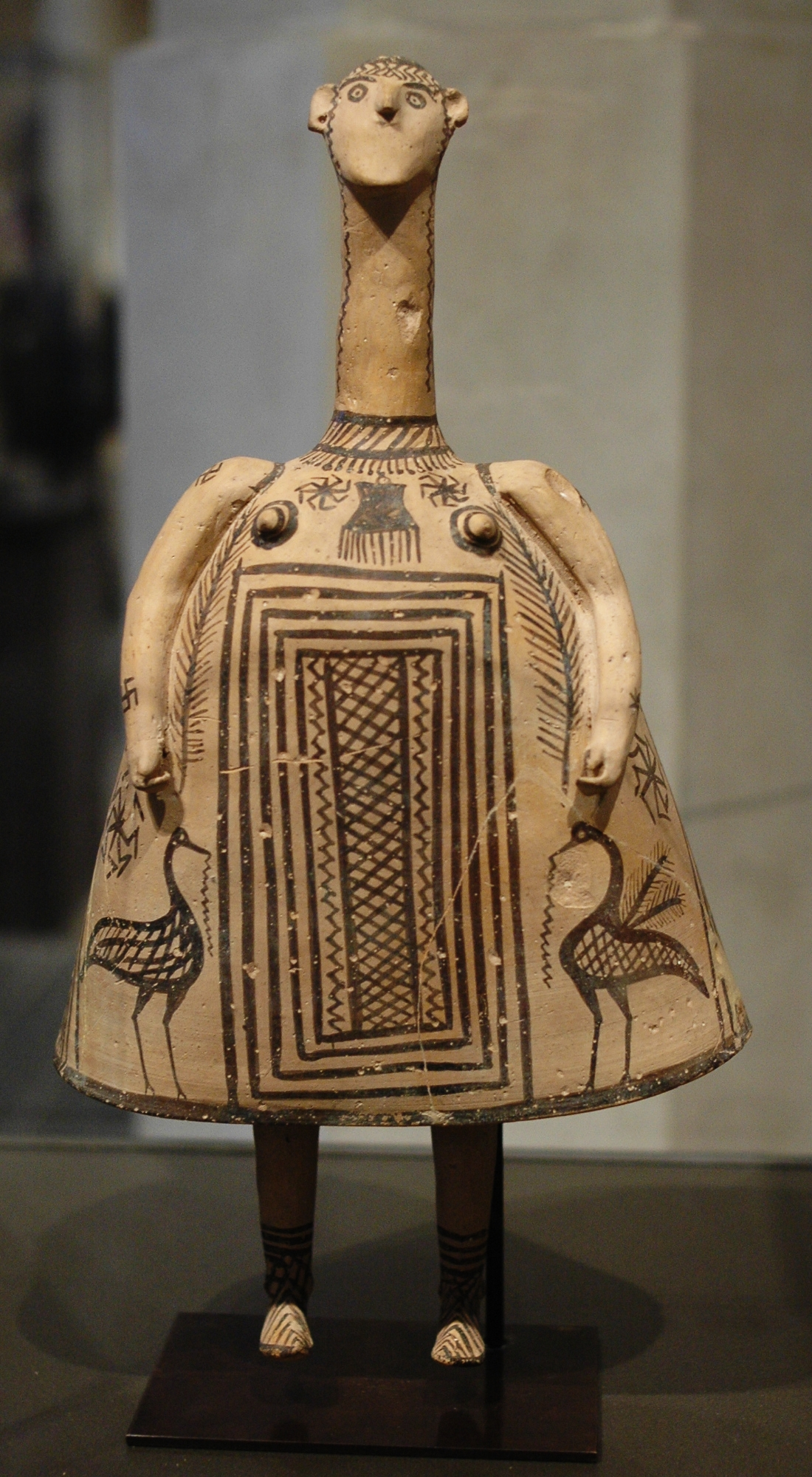 Bell idol. Terracotta figurine, 7th century BC (Late Geometric period).